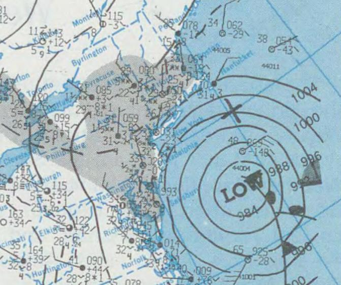 A weather map on February 23, 1987 depicting a storm.